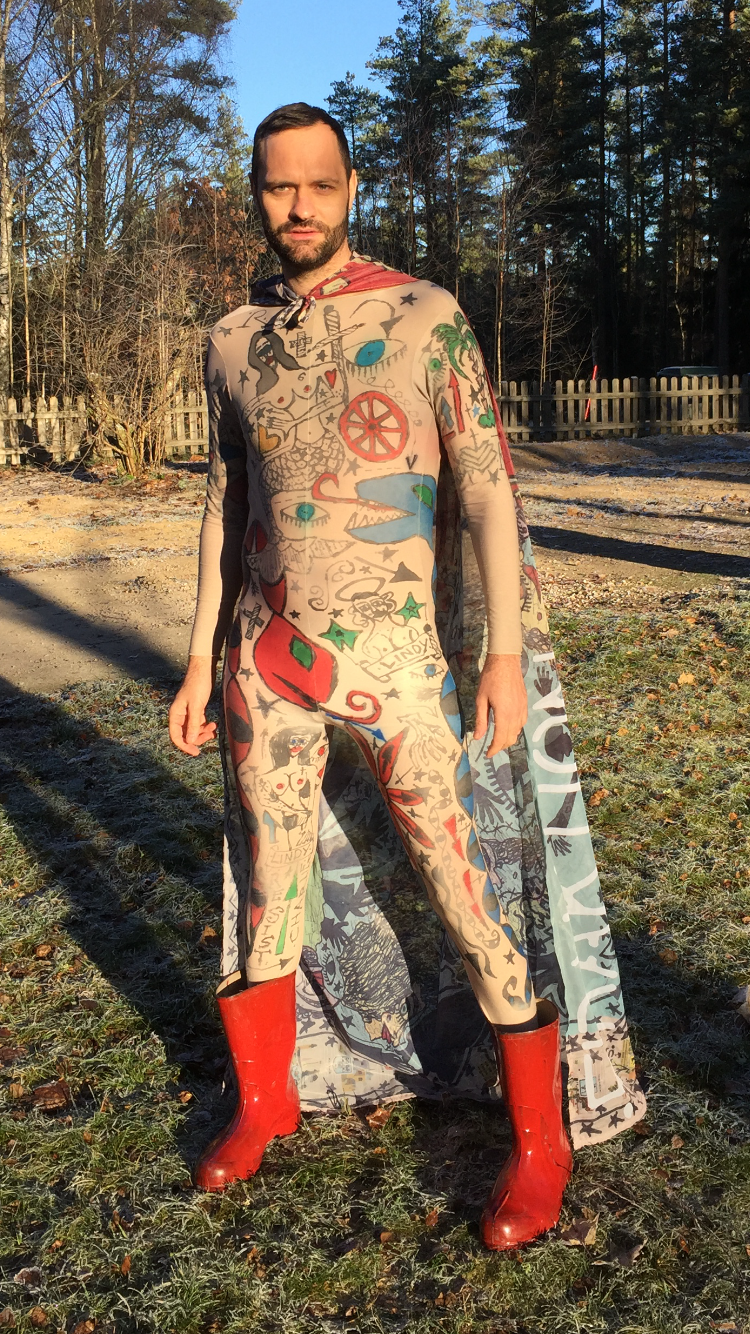 Lindy Larsson in a costume from the performance Roma Armee at Maxim Gorki Theater, Berlin.